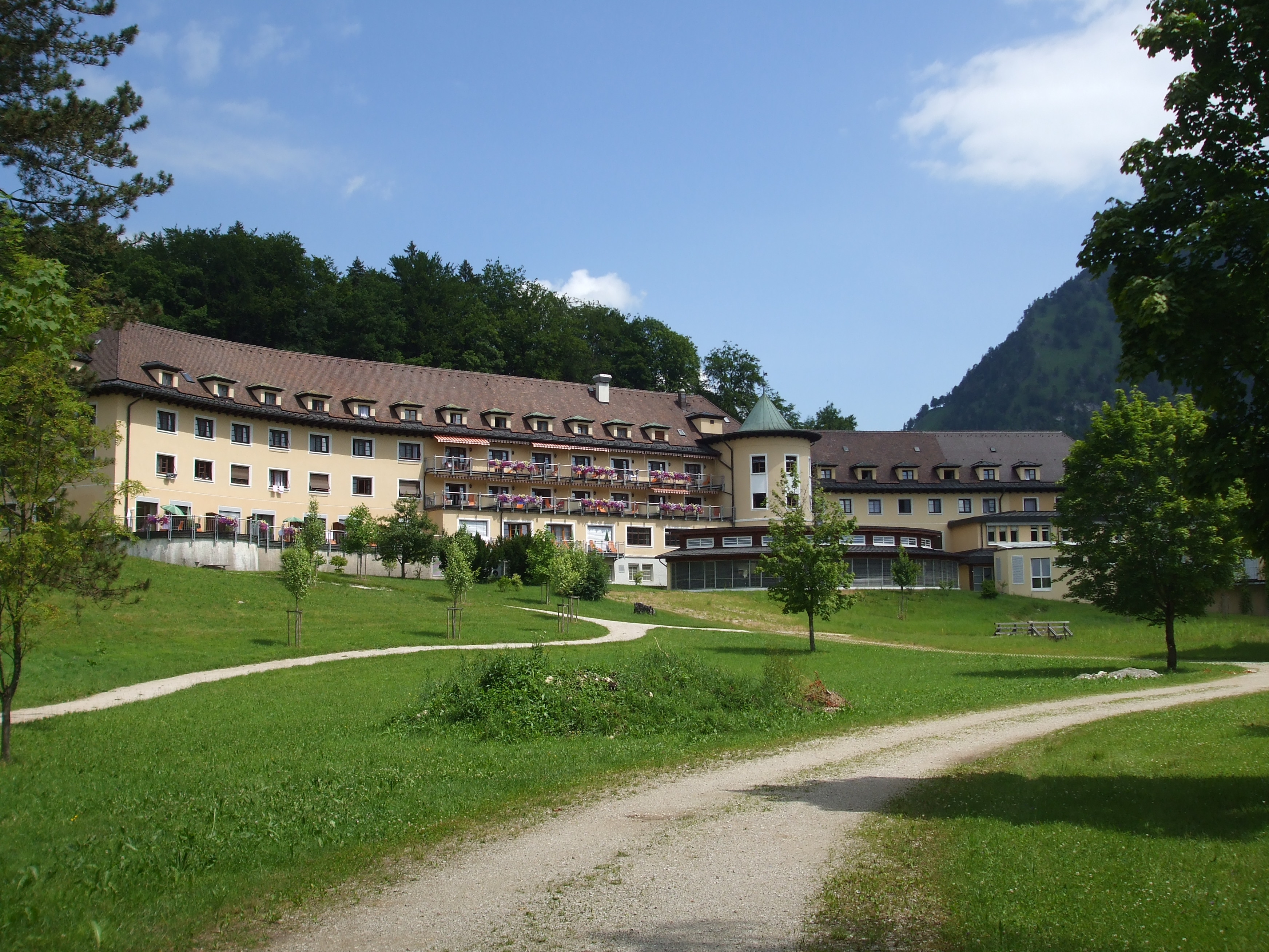 Chiemgau-Klink in Marquartstein